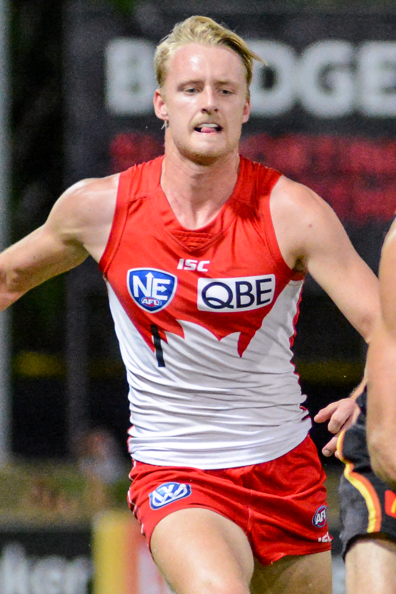 Rose playing for the Sydney Swans reserves in August 2016